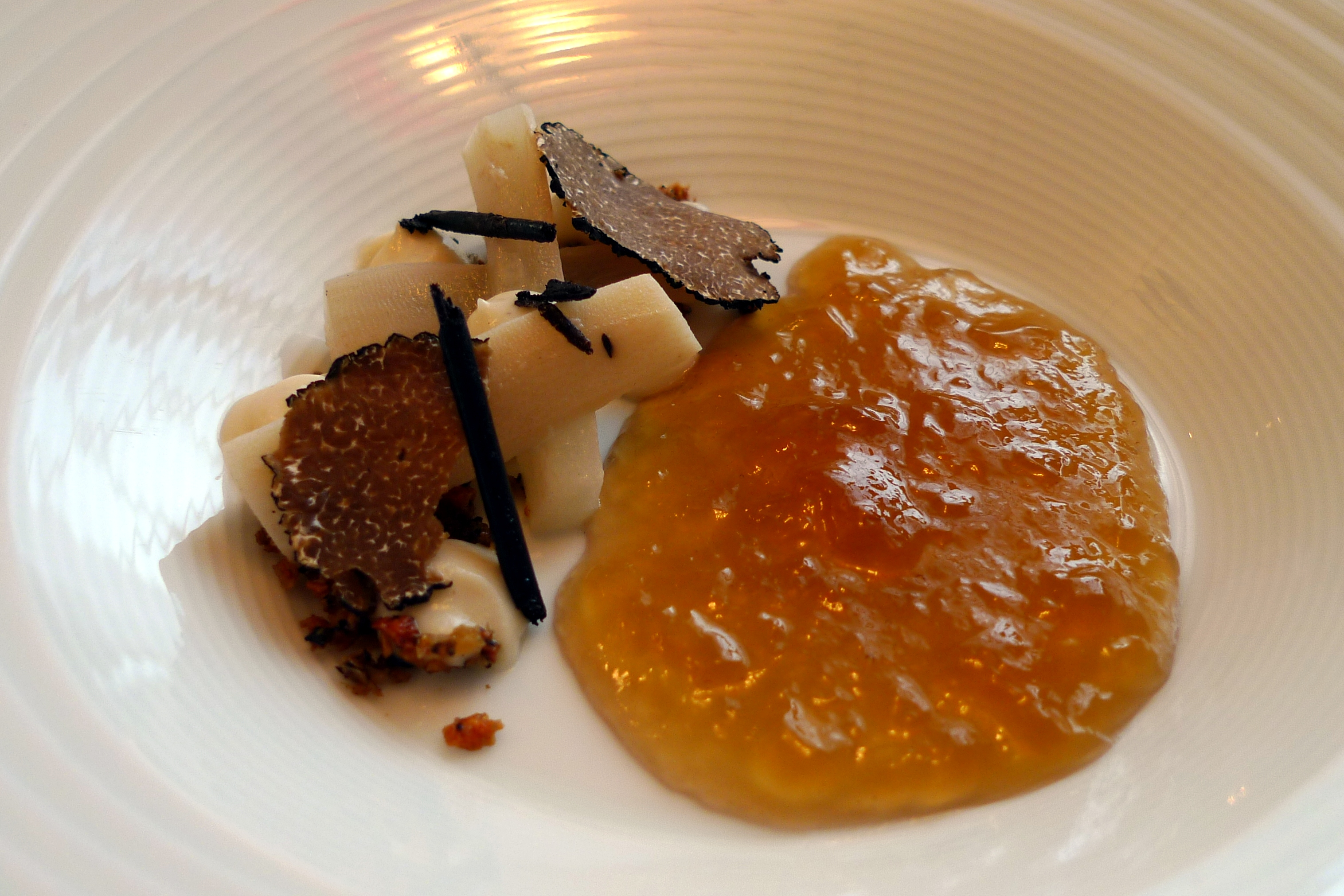 Salsify in milk with brown butter and truffle. Served with a beef jelly. Interesting, certainly better than I expected given my slight trepidation about the jelly aspect, but the salsify and truffle combination was great. At Viajante, Patriot Square.